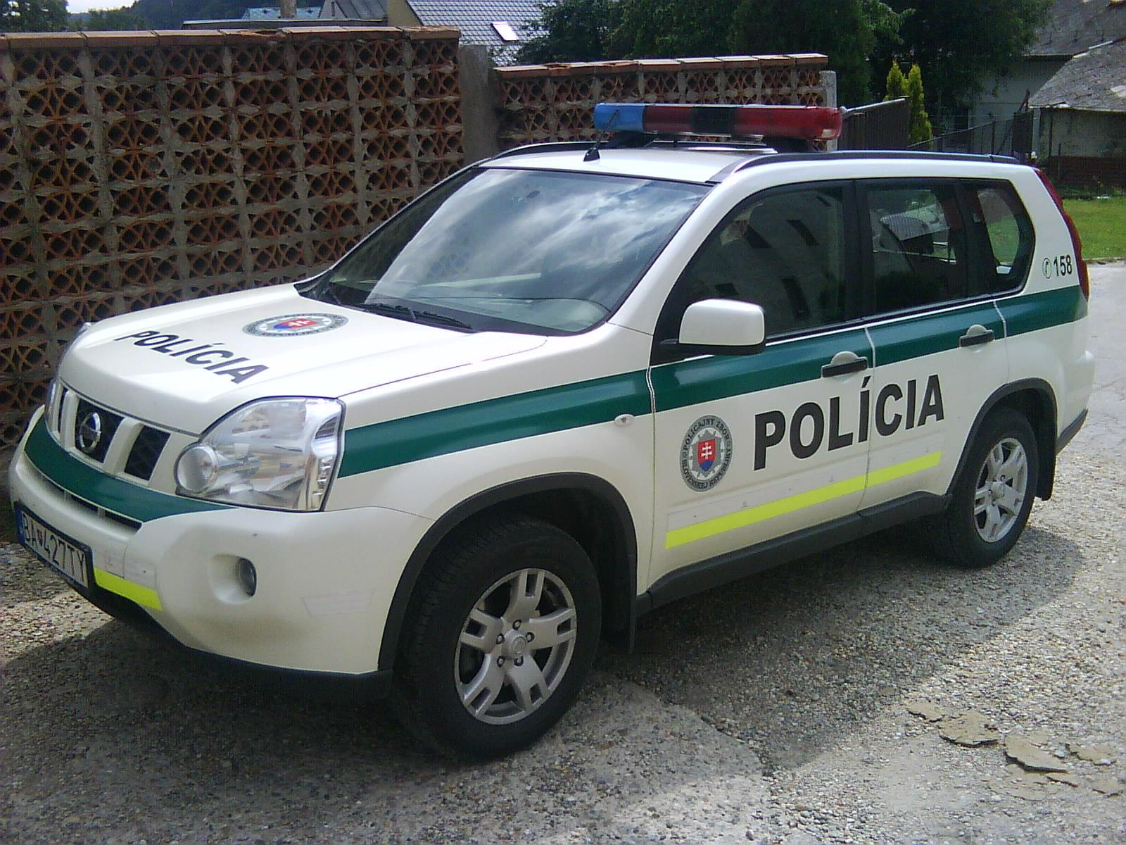 Slovak police car Nissan X-Trail T31 in Kremnica.